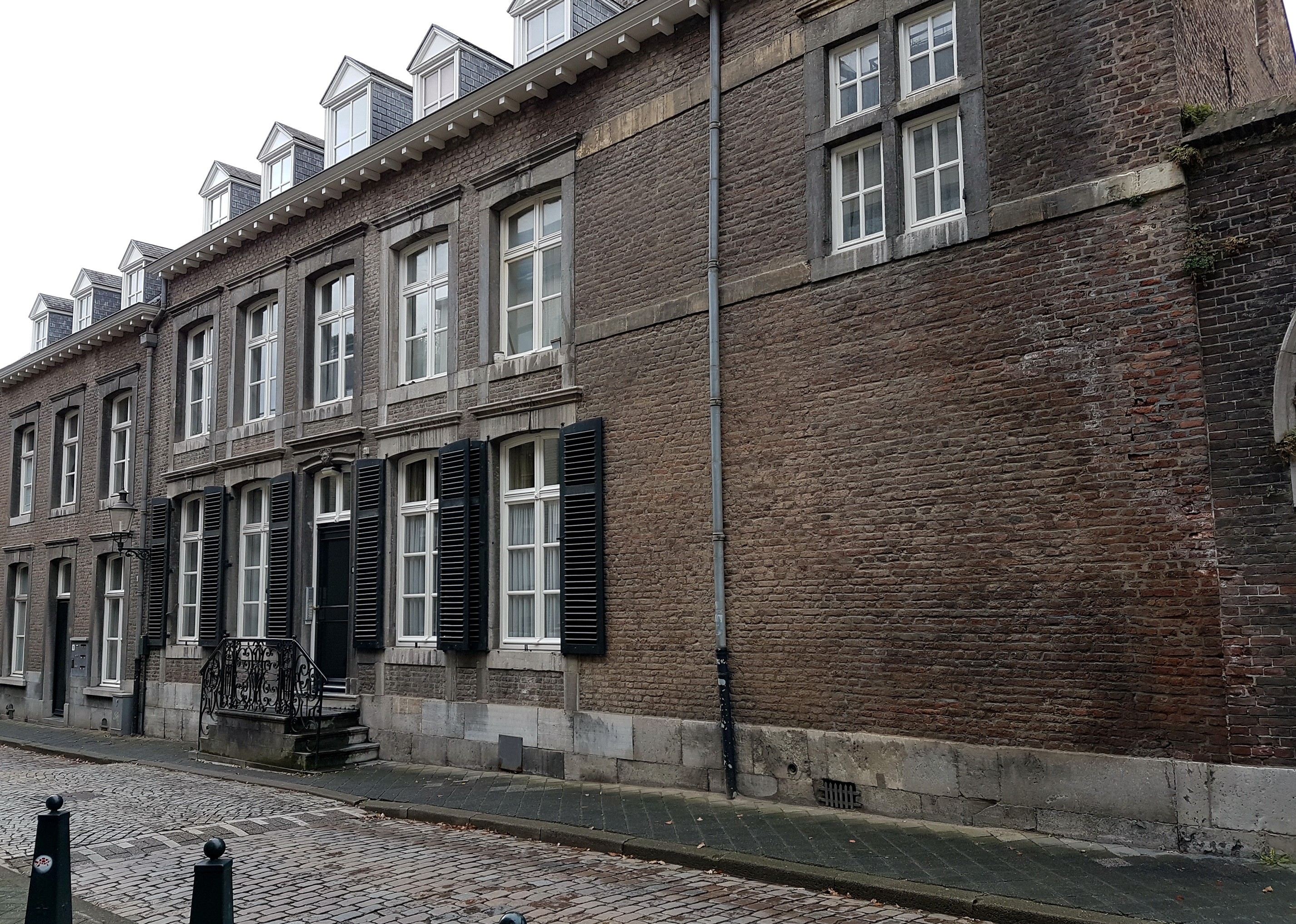 View of two rijksmonumenten at Abtstraat 14 and 16 in Maastricht, Netherlands.